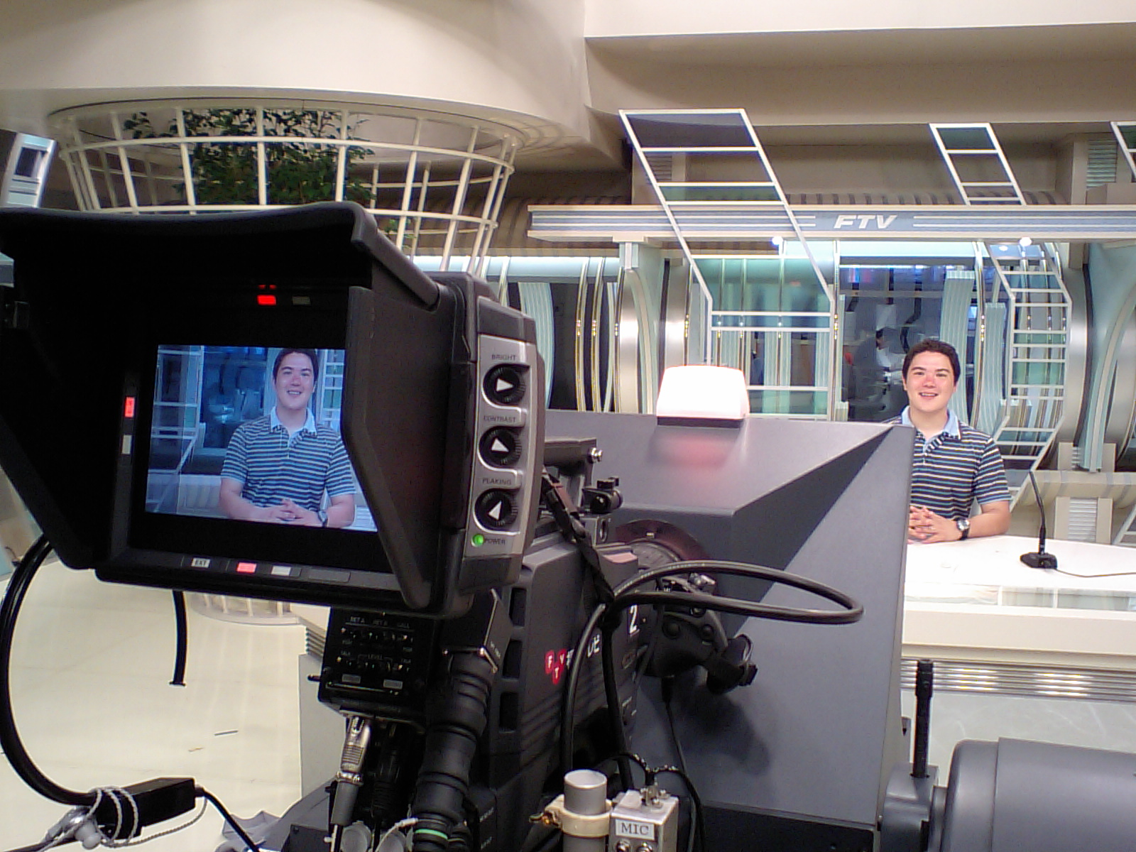 More info at: When Fukushima TV did a news story on me and my unicycling, they let us look around in the studio. Billy decided that he would make a good anchor for the evening news.